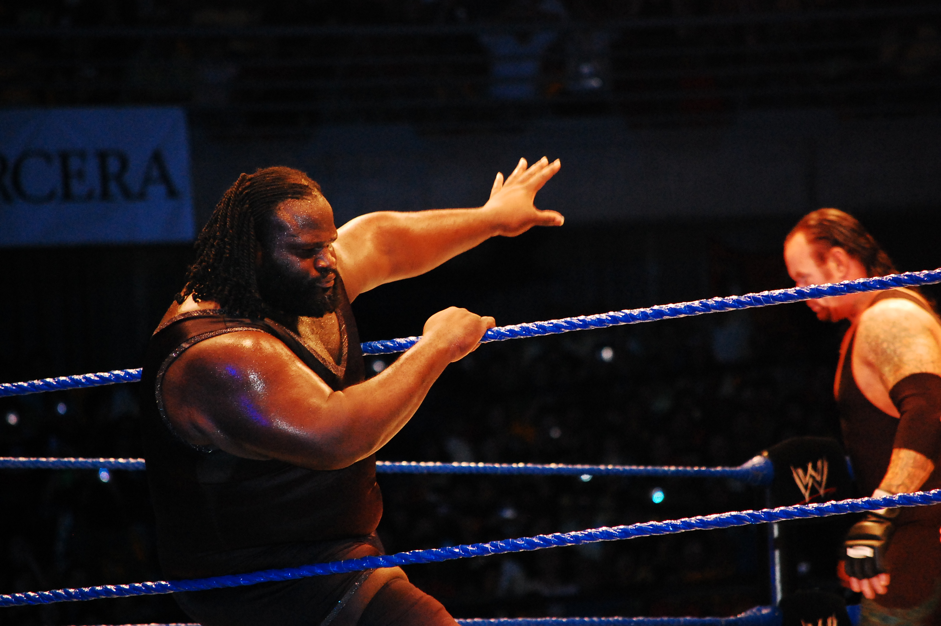 the world strongest man and the phenom